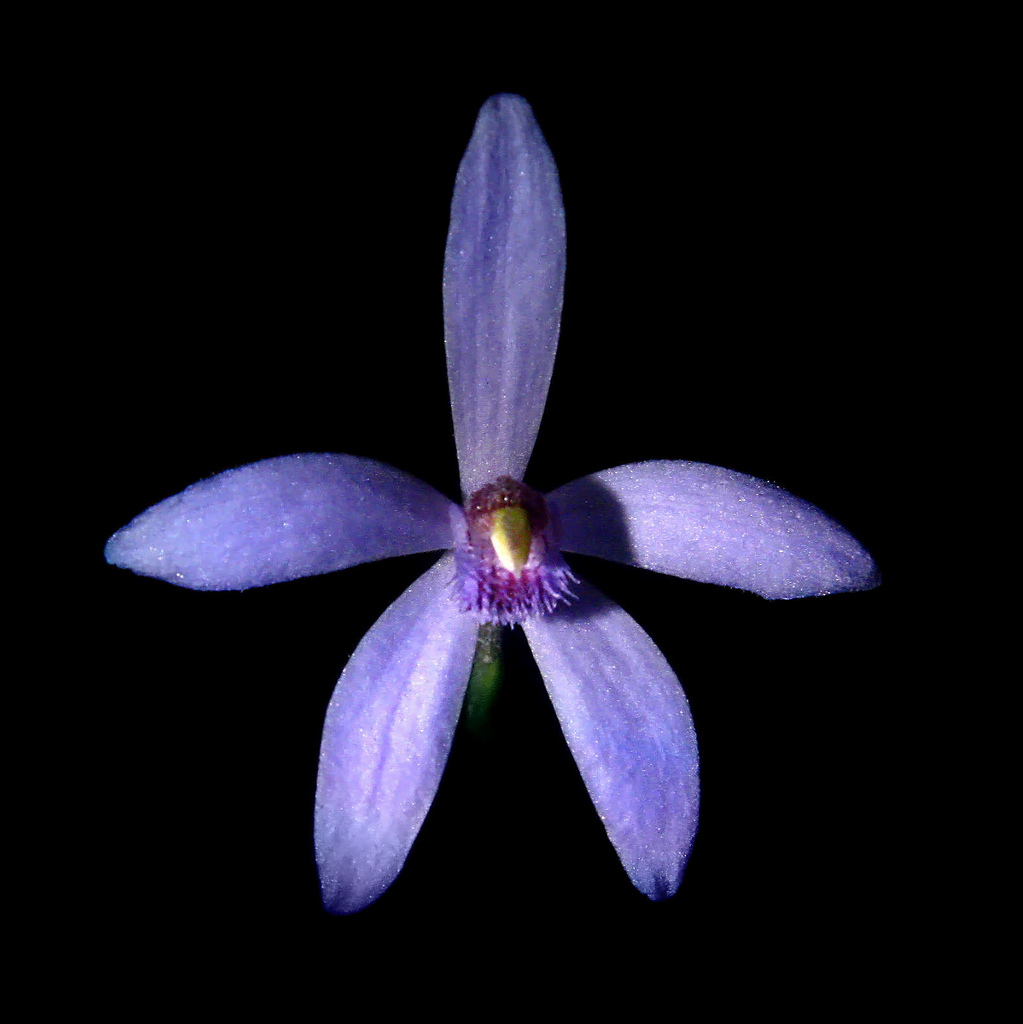 Pheladenia deformis Blue Beard Orchid